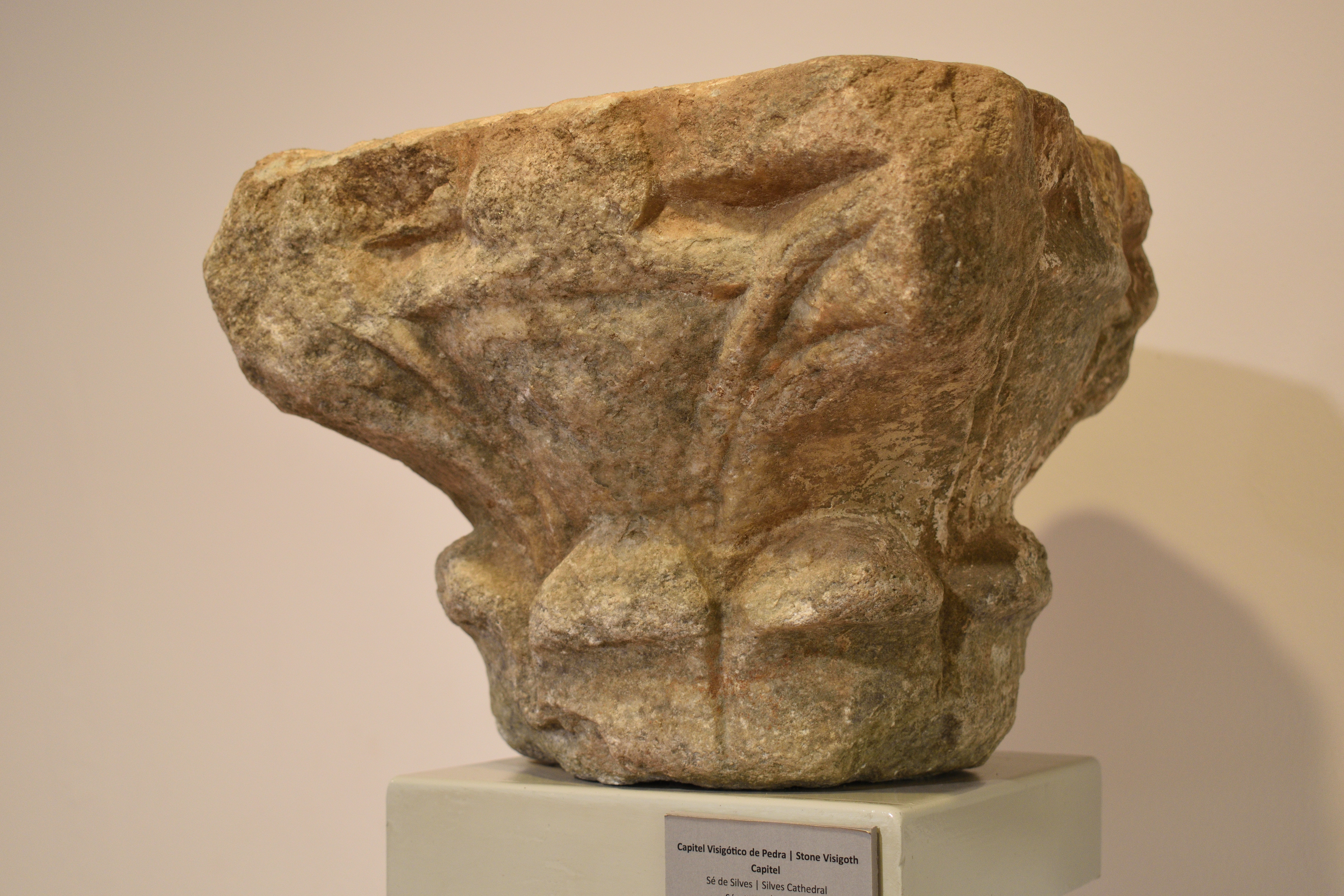 Visigothic Stone Capital, found in Silves's Cathedral. VI - VII centuries. Silves's Municipal Museum of Archaeology